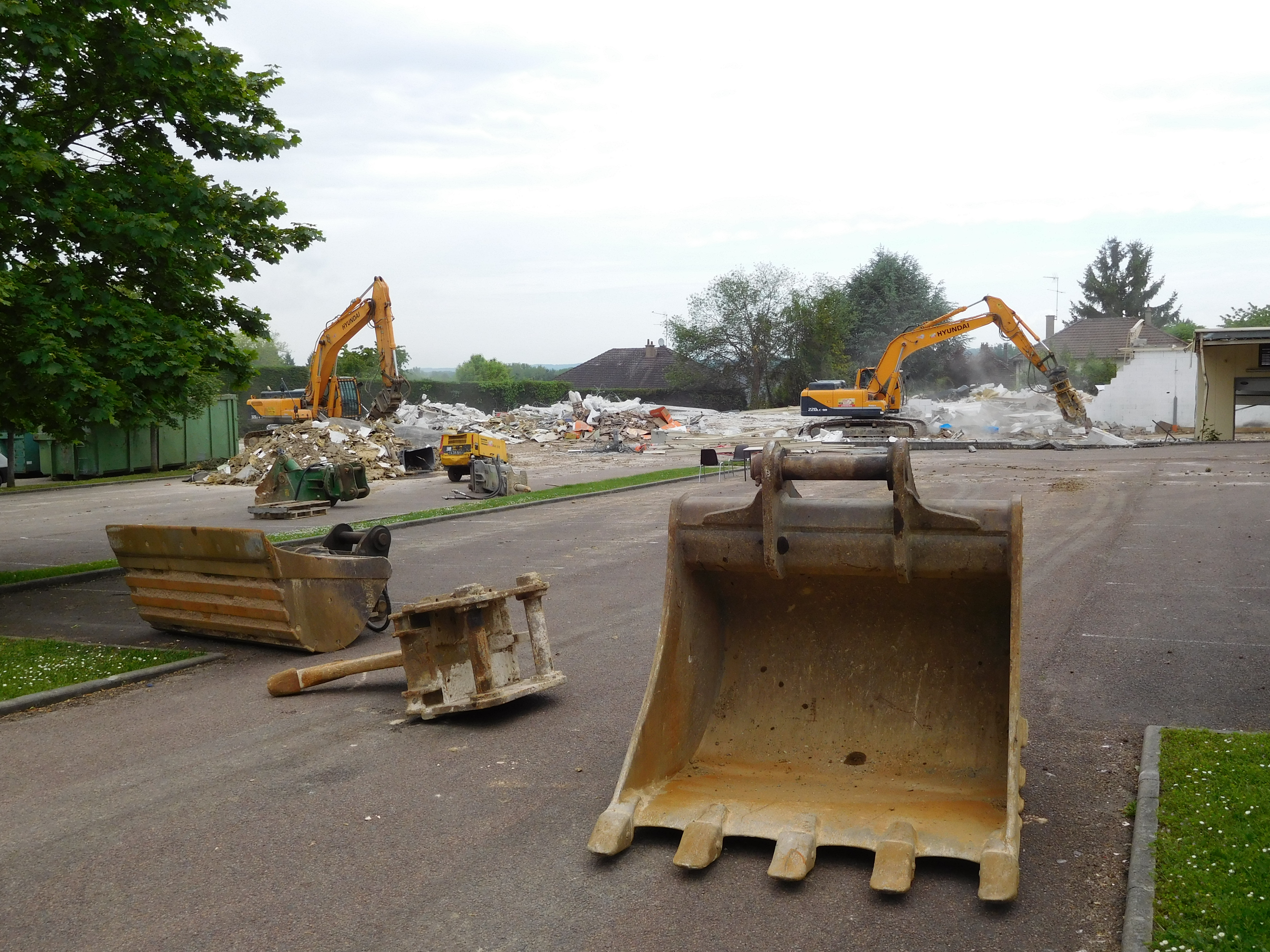 Excavator buckets, hydraulic crusher, Daemo Alicon B300 hydraulic breaker, Hyundai 320 LC-9 and 220 LC-9A excavators.